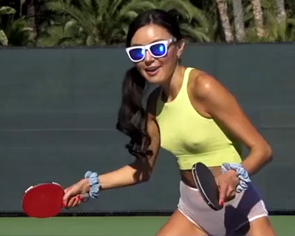 Korean professional model and table tennis player Soo Yeon Lee poses for Playboy Magazine